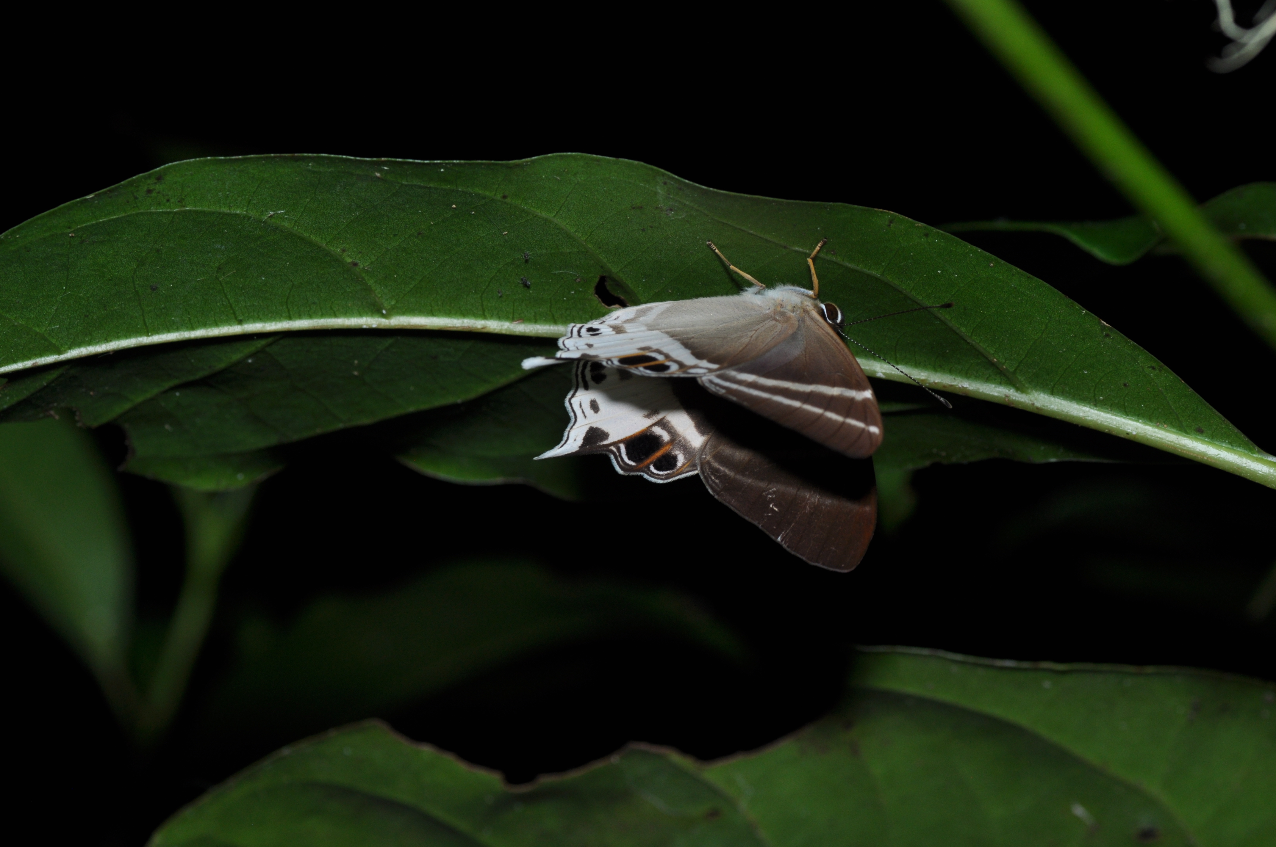 Thanks to atronoxychump for ID